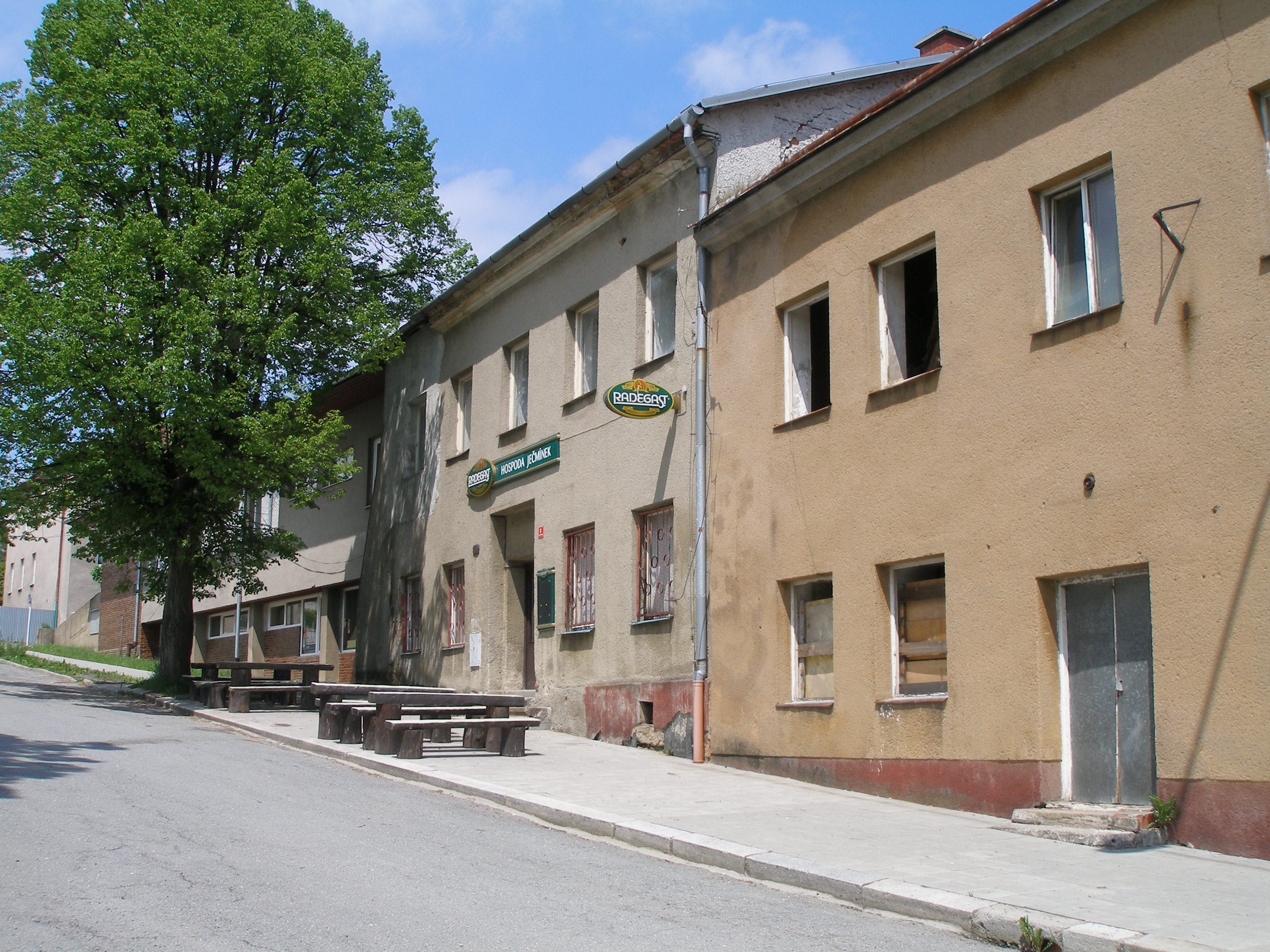 Město Libavá (Libavá City) - North-Eastern side of the square